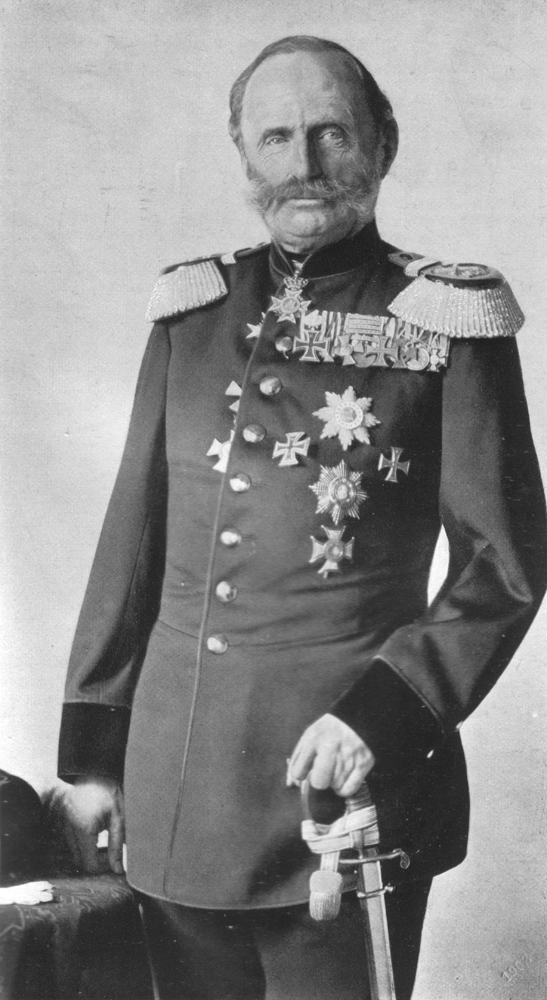 King George of Saxony in 1902.